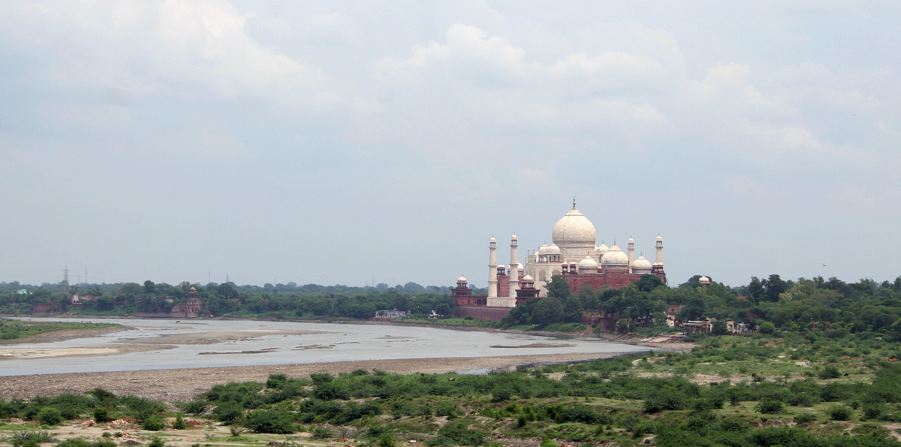 Taj Mahal as seen from Red Fort in Agra.